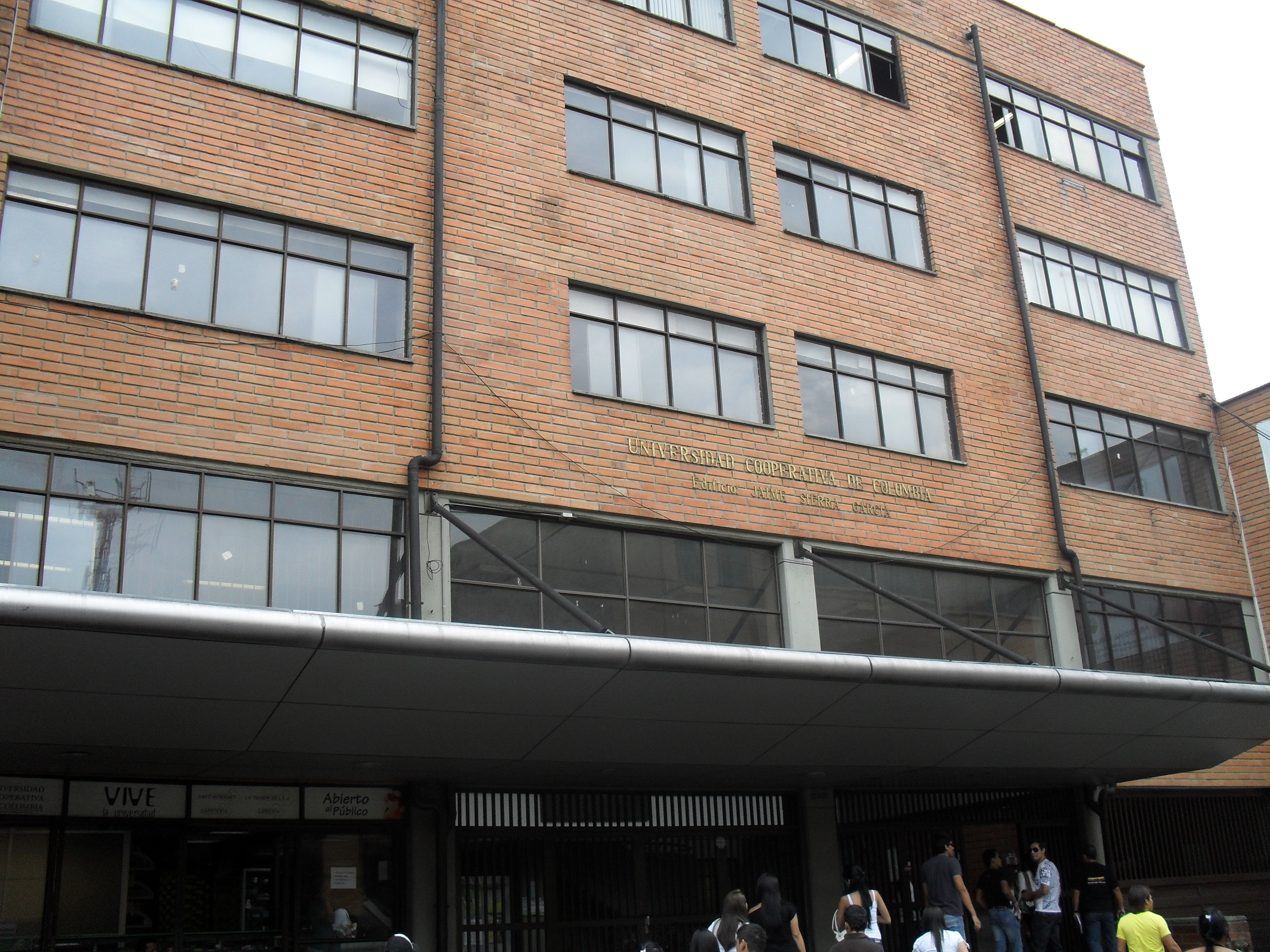 Sede Medellín, Edificio Jaime Sierra García .